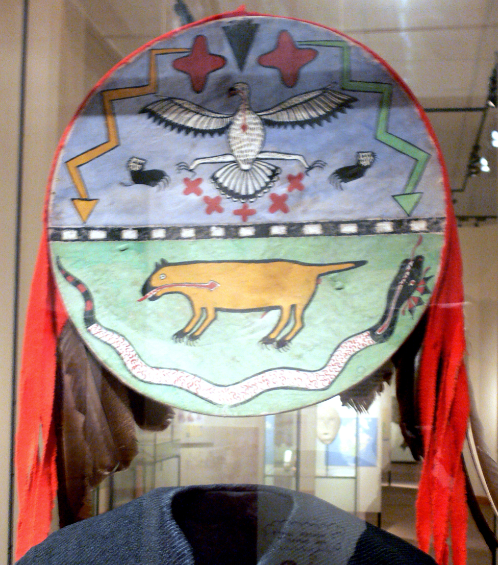 Symbolic war shield of the Zuni bow priesthood, North America department, Ethnological Museum, Berlin, Germany (F. H. Cushing collection, 1884)